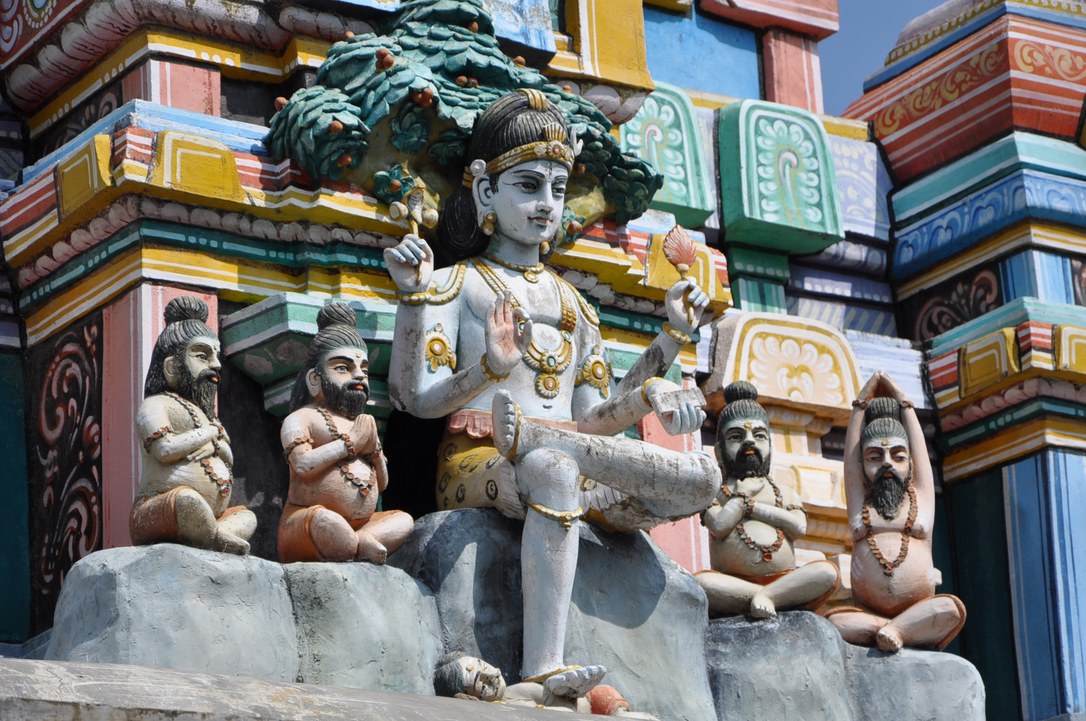 Pic taken at Thiruneelakudi near Kumbakonam in Tamilnadu.